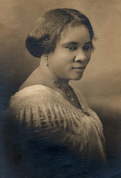 Madam C.J. Walker, the first self-made U.S. woman millionaire of any race, owned property in Idlewild.